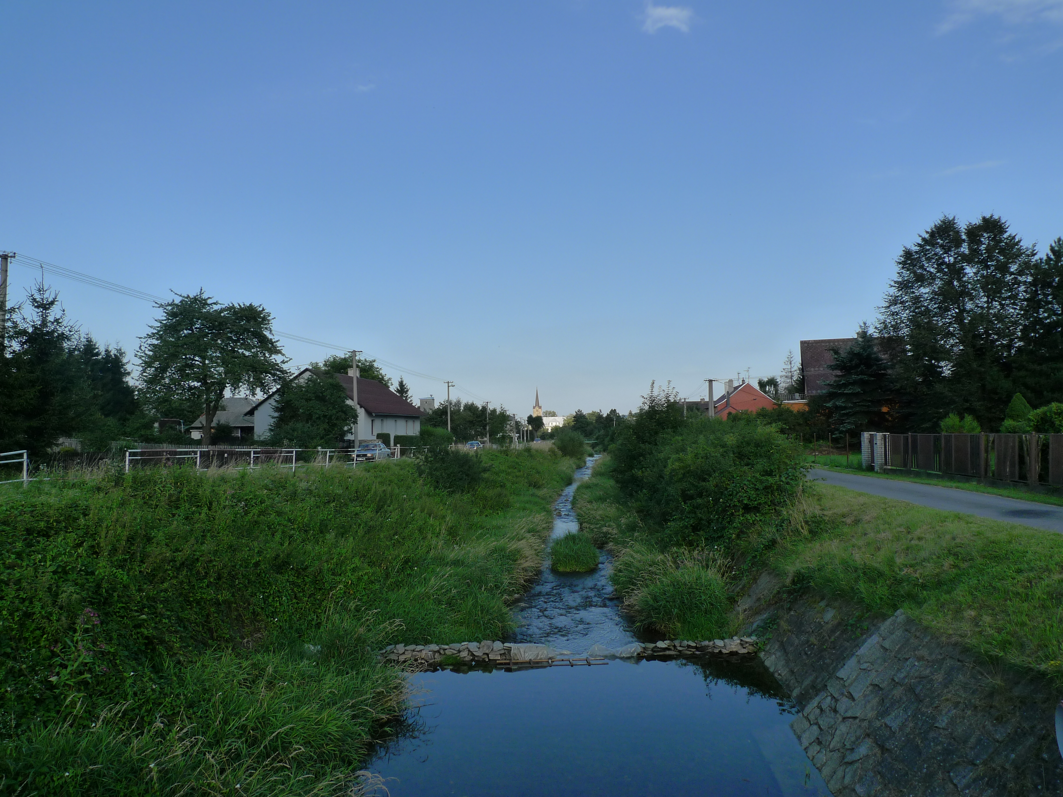 Village Jindřichov and Osobłoga river